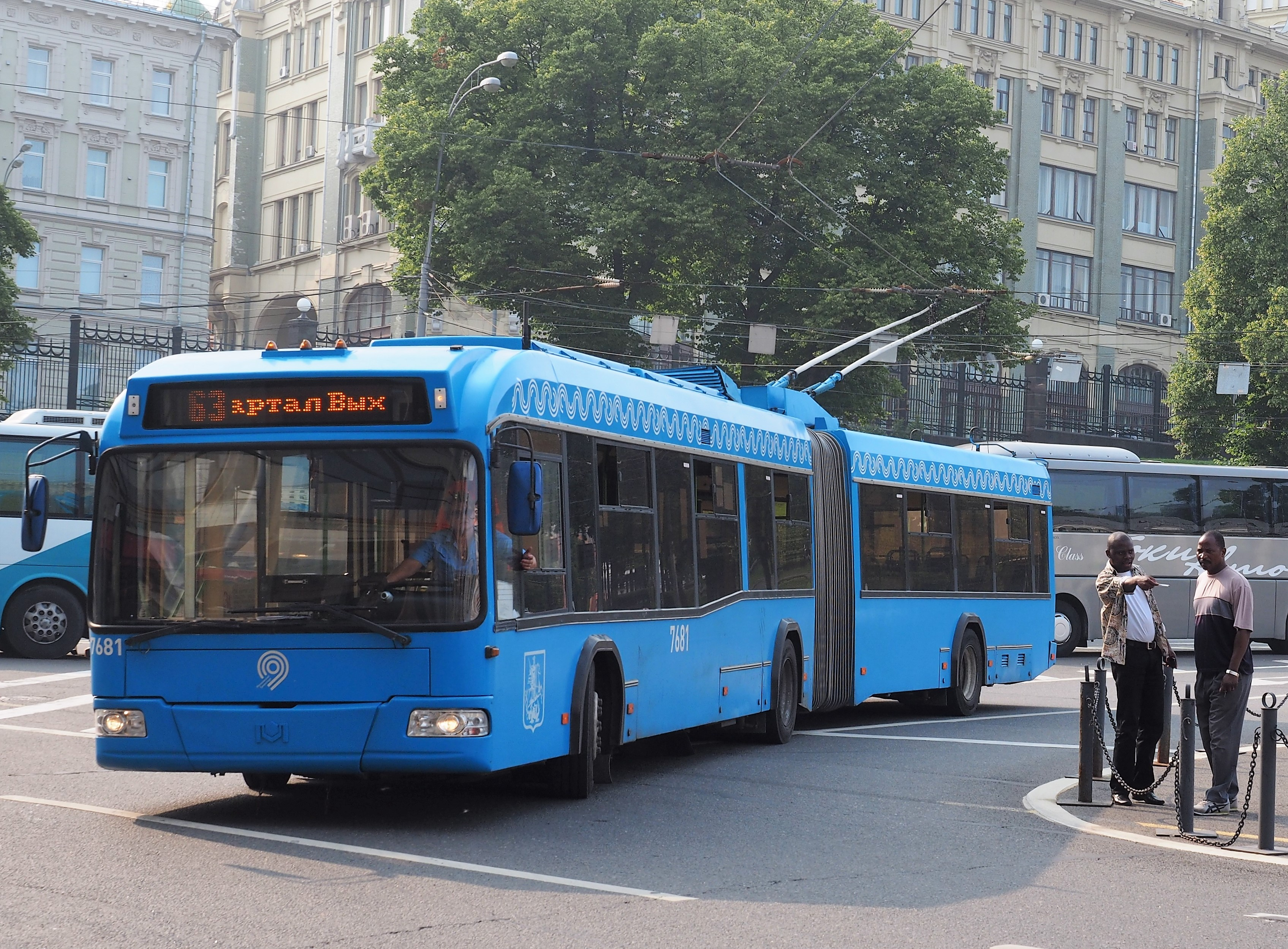 BKM 333 trolleybus in Moscow